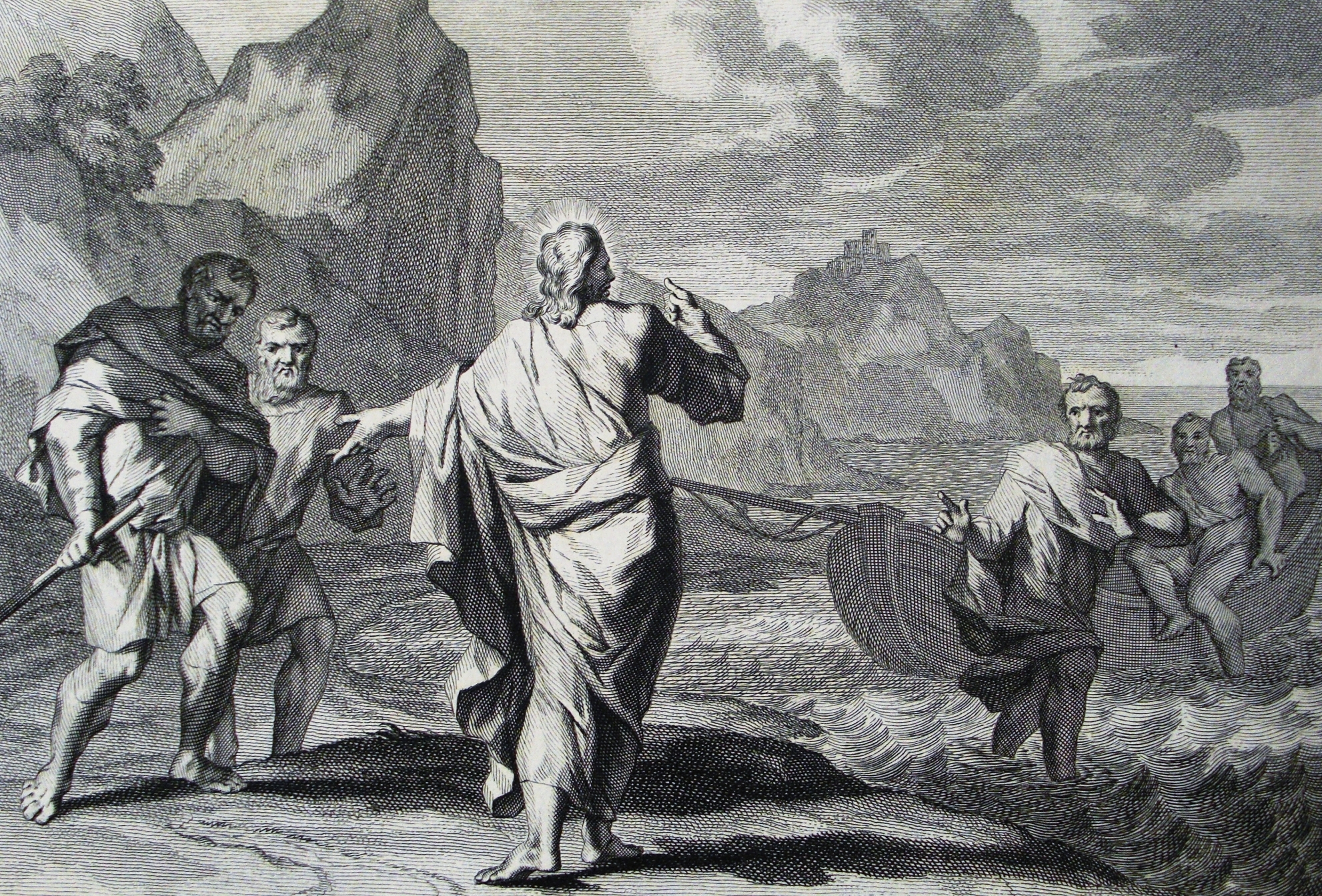 A print from the Phillip Medhurst Collection of Bible illustrations in the possession of Revd. Philip De Vere at St. George’s Court, Kidderminster, England.